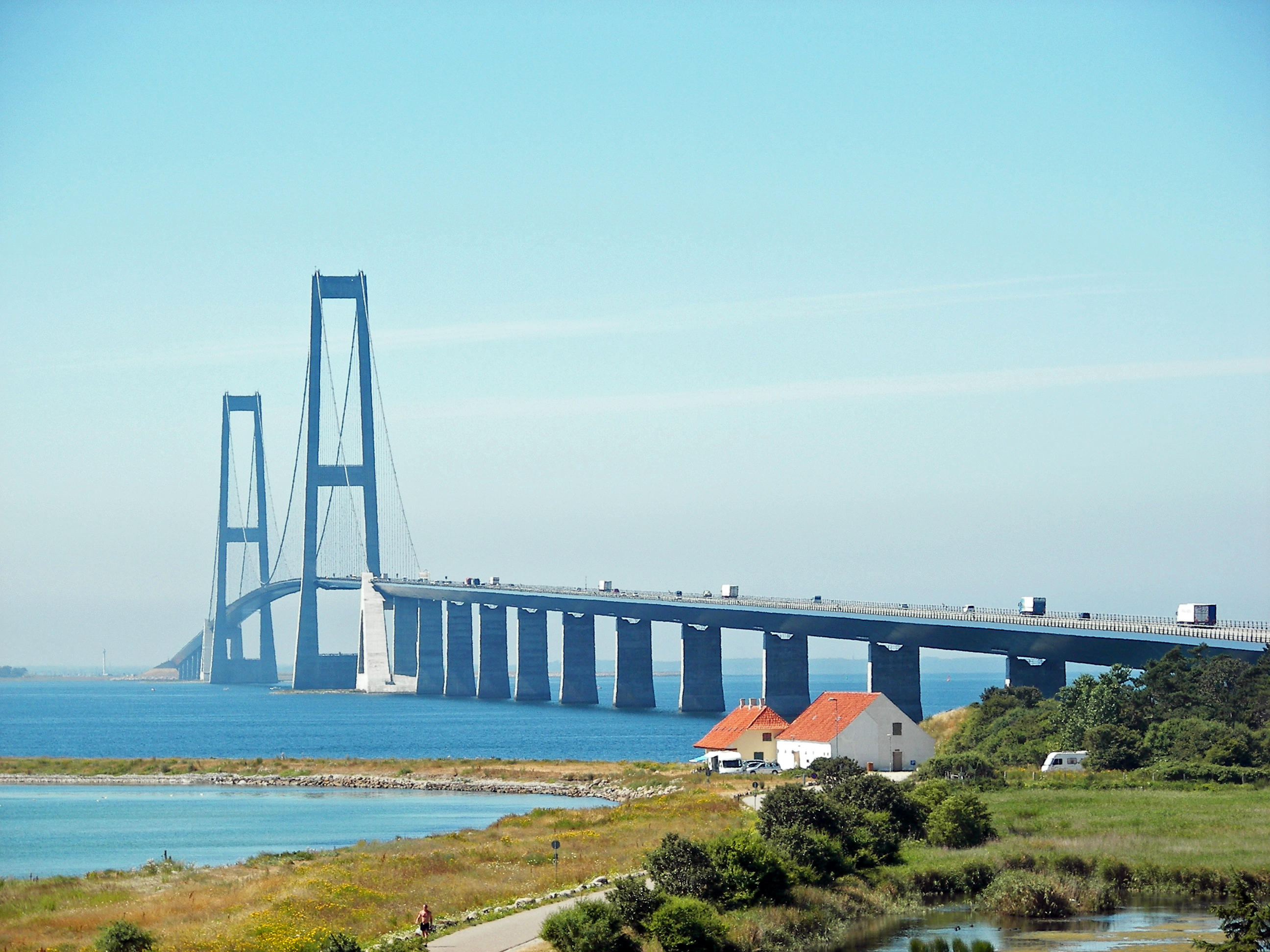 Storebæltsbroen as seen from 'Bro og naturcenter', Sjælland, Denmark.